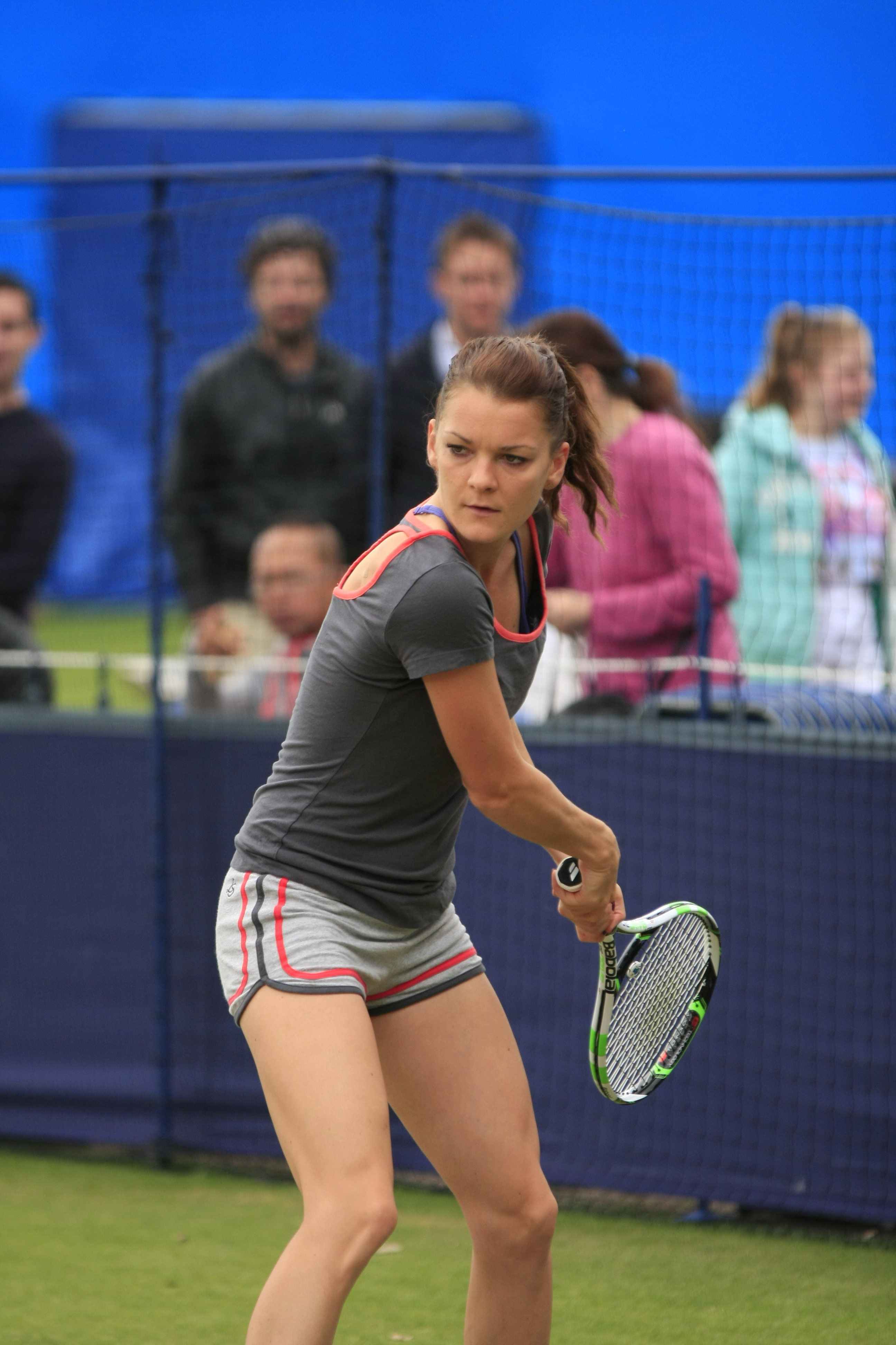 Radwanska at the Aegon International Tennis, June 2014